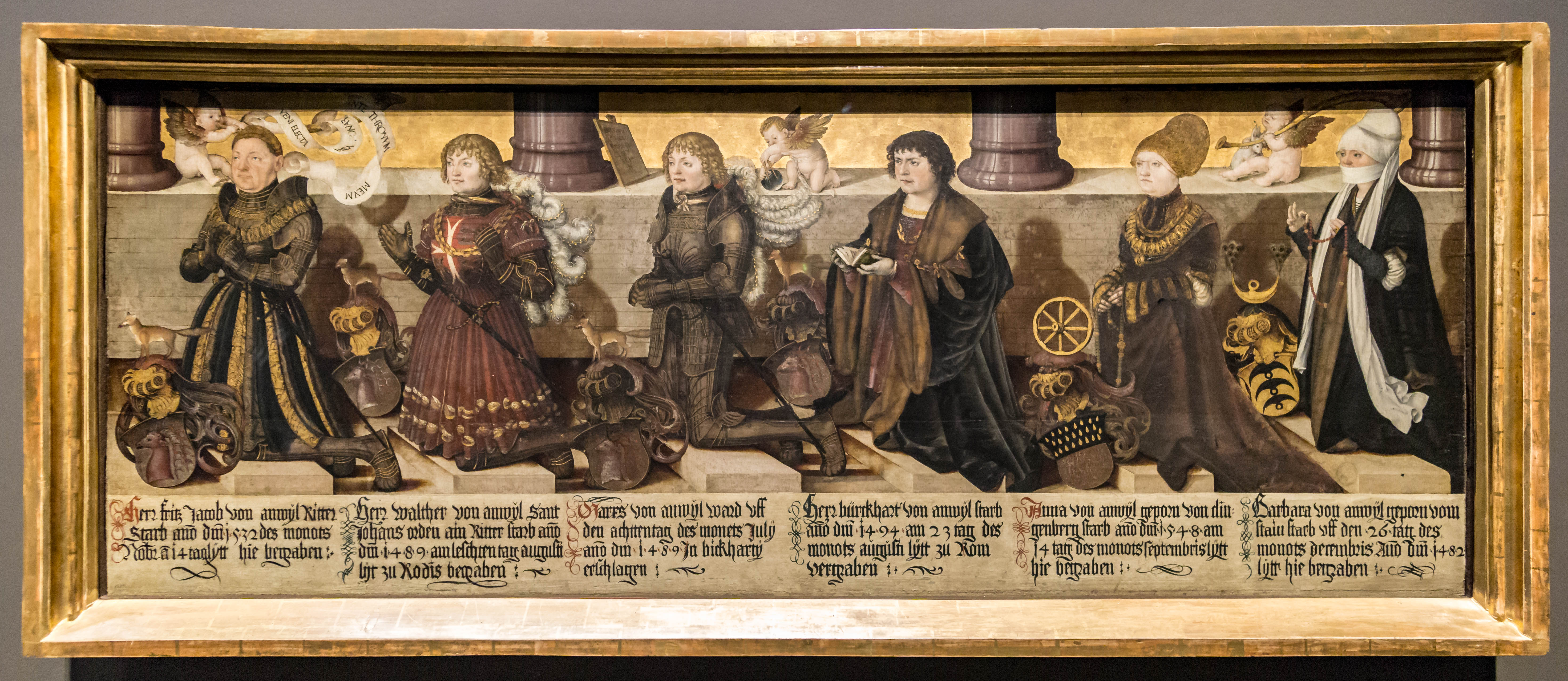 Epitaph of the Von Anwyl Family